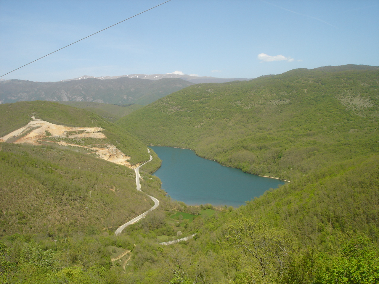 Lake Globocica, Macedonia